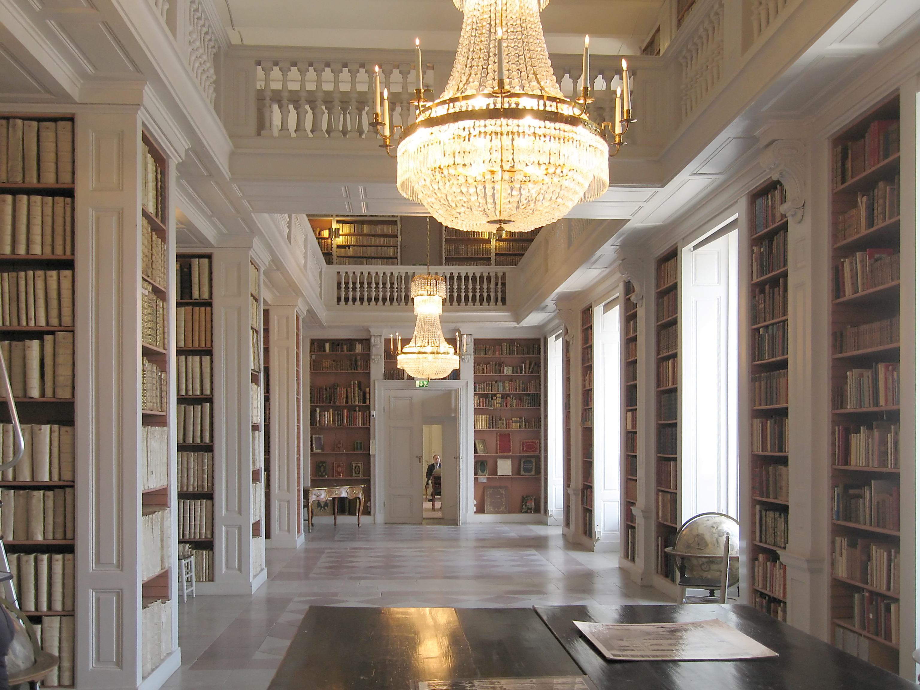 Interior of one of the old book rooms in Carolina Rediviva, Uppsala.